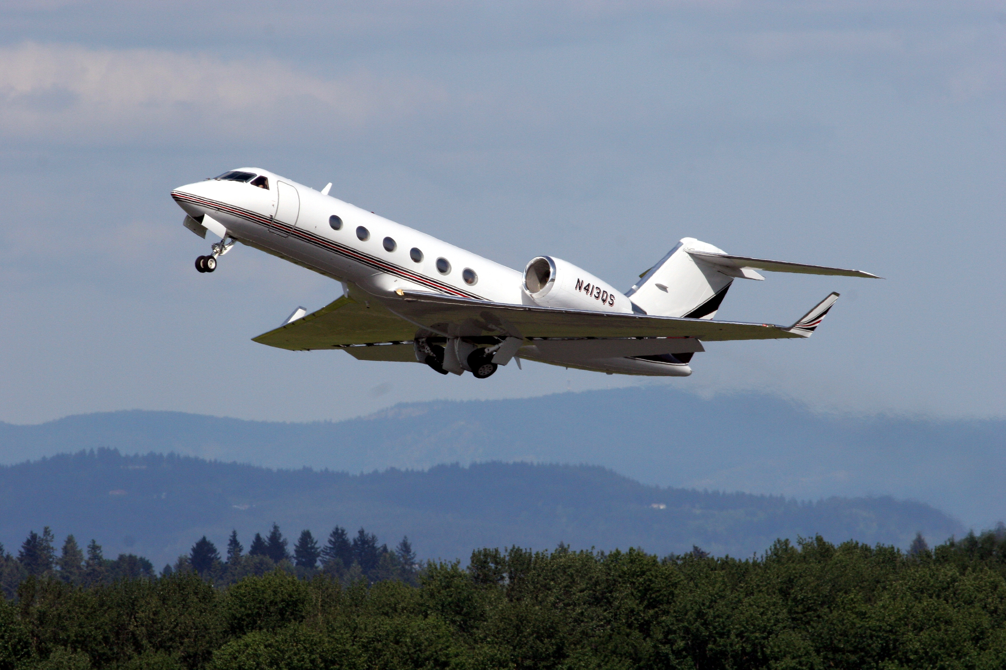 A Gulfstream G-400 aircraft (N413QS) during takeoff